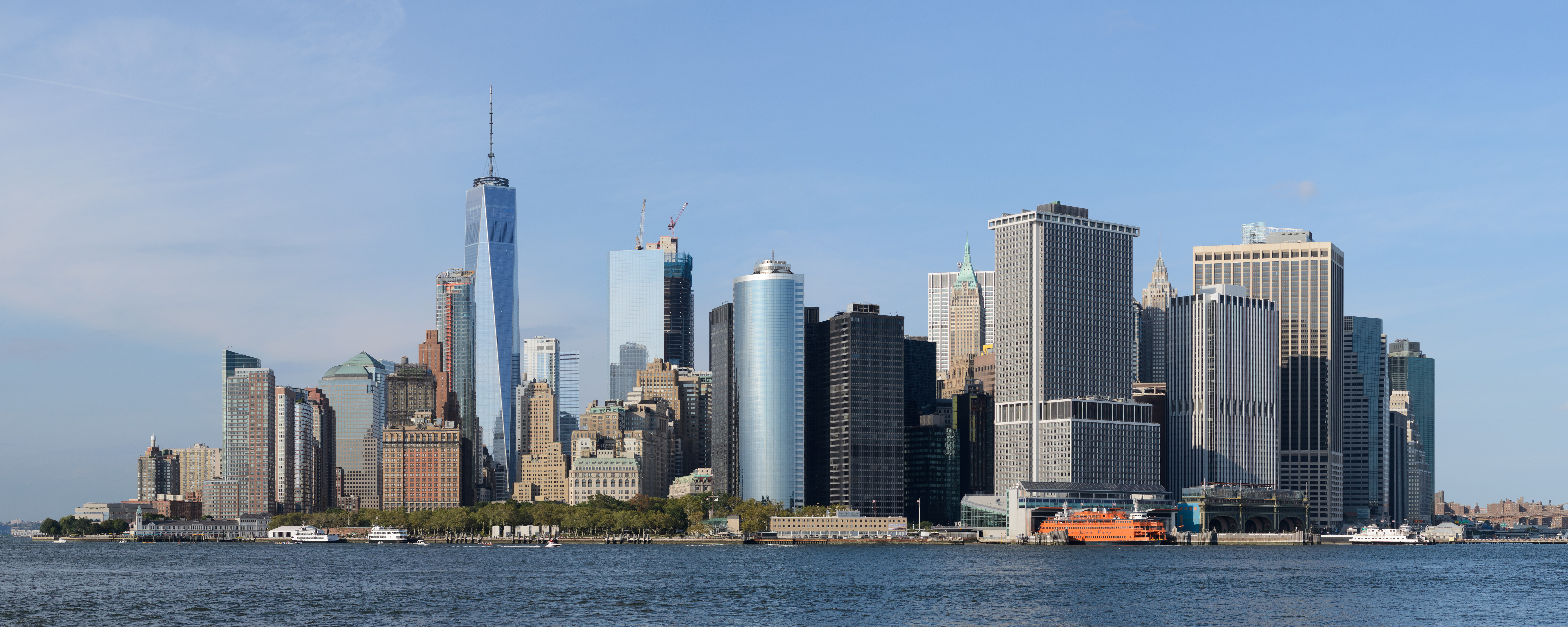 Four-segment panorama of Lower Manhattan, as viewed from Governors Island, New York City.